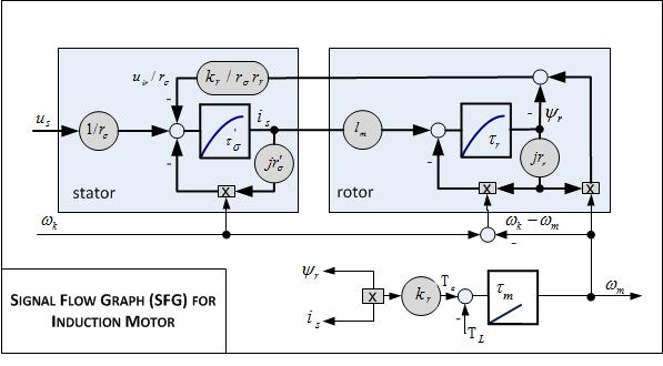 Adapted after several papers authored/co-authored byJoachim Holtz including especially the 2002 paper 'Sensorless Control of Induction Motor Drives' at link